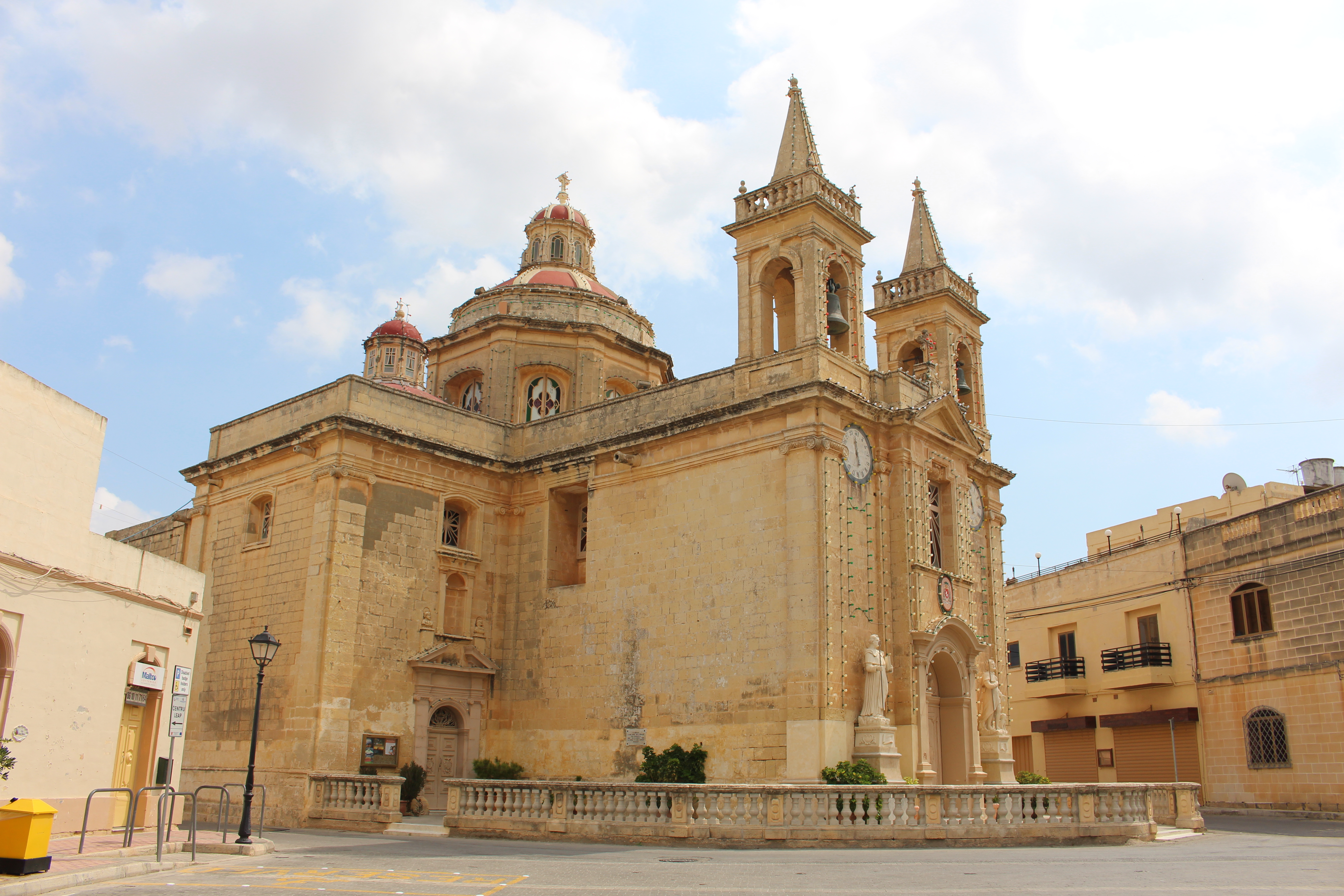 A photo of Ħal Kirkop's local parish church, which is dedicated to the village's patron saint, Saint Leonard.